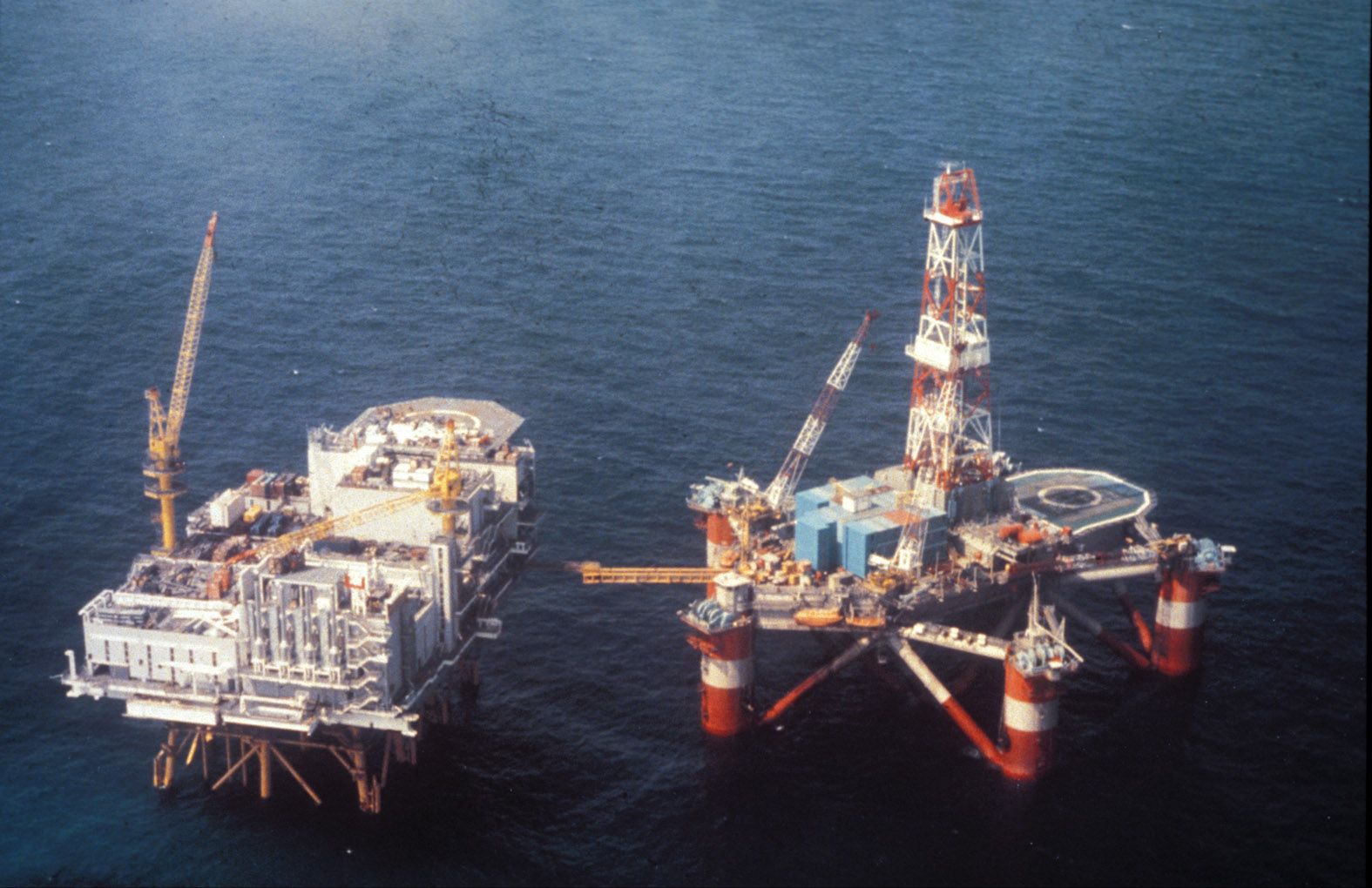 on the left the oil-rig Edda 2/7C, on the right the Flotel Alexander L. Kielland